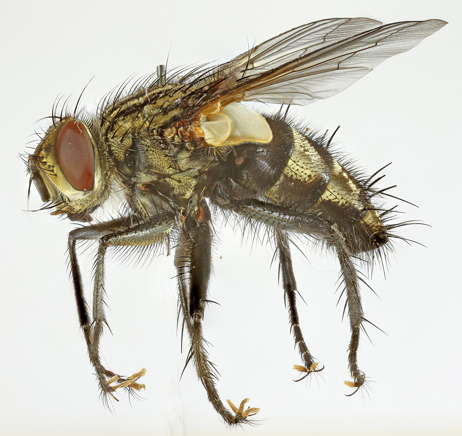 Exorista larvarum, Sontley, North Wales, Aug 2015 2